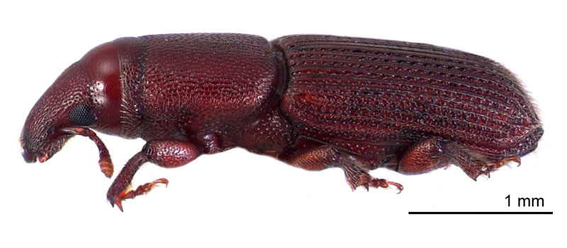 Lateral view of a specimen of Xenocnema spinipes photographed by Landcare Research New Zealand Ltd.